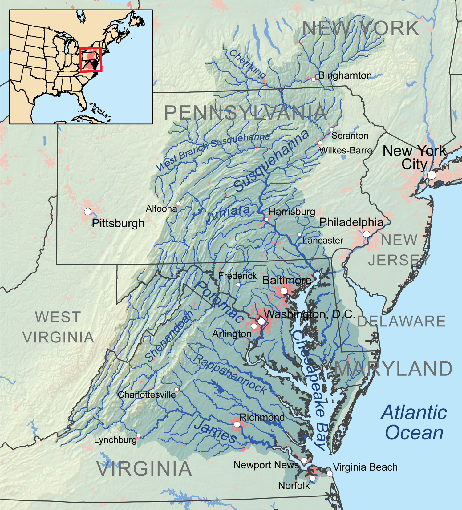 Map showing the Chesapeake Bay drainage basin.